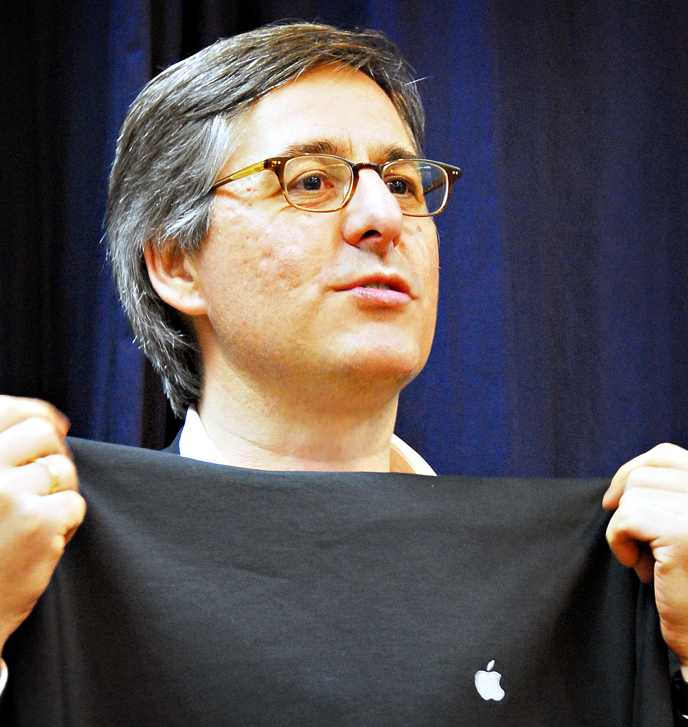 Dan Lyons, aka Fake Steve Jobs, holding up an Apple turtleneck for size at an event at Kepler's Bookstore in Menlo Park.